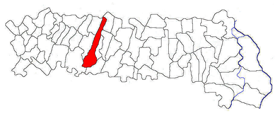 Limits of Balaciu commune